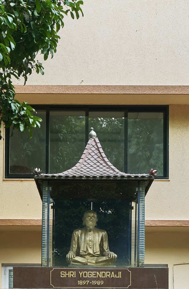 Yogendraji's Statue